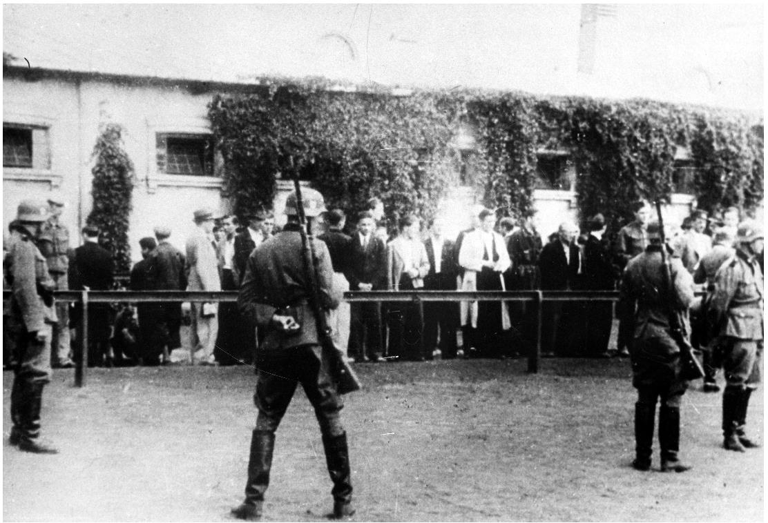 The Nazi transit camp on the grounds of the former barracks of 1st Light Cavalry Regiment of Józef Piłsudski in the area of Myśliwiecka, Szwoleżerów and Czerniakowska Streets in Warsaw. The building stood in what is now the Spanish Embassy at Myśliwiecka 4 Street.